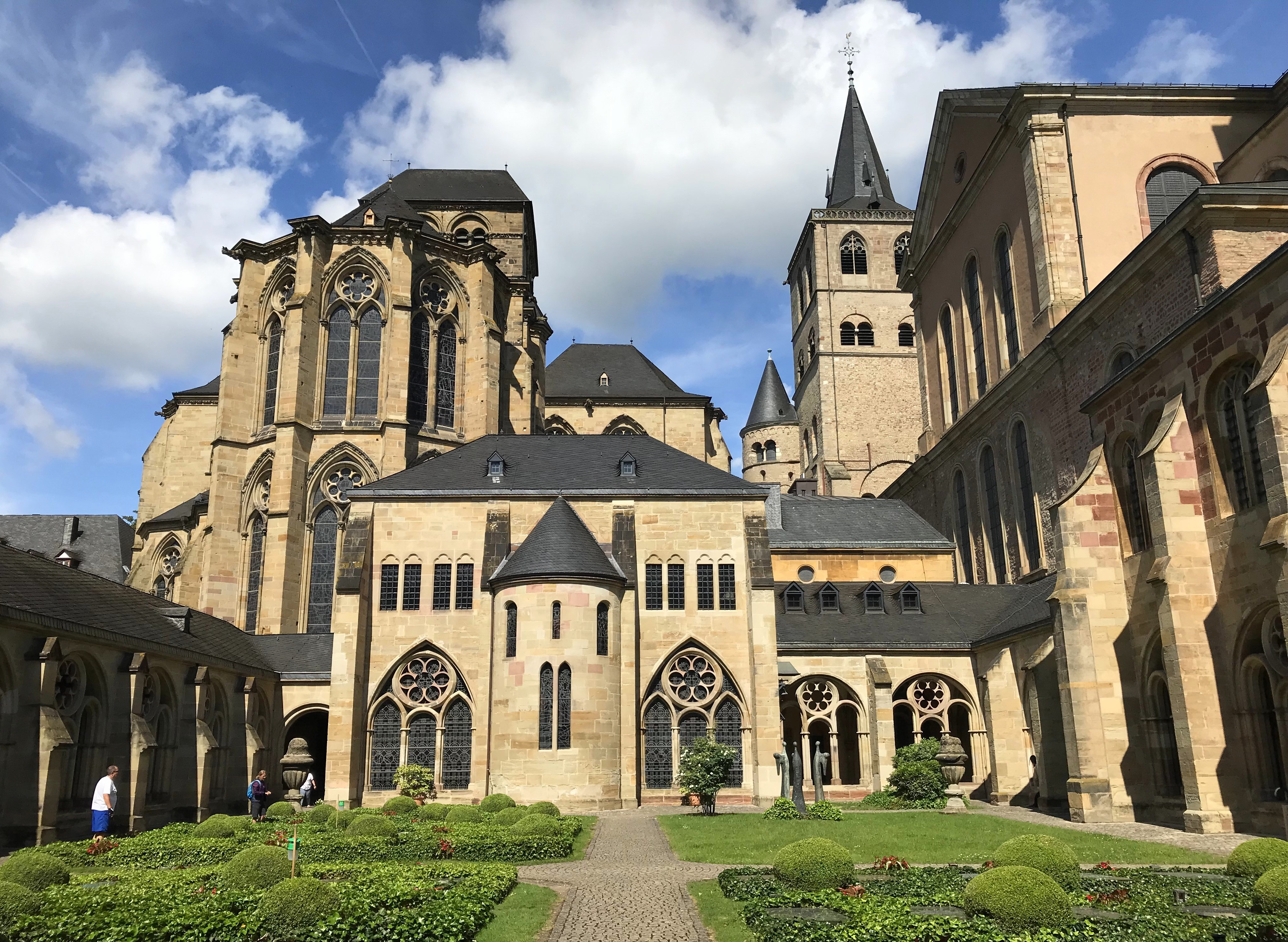 Cloister of the Cathedral of St. Peter (Trier)